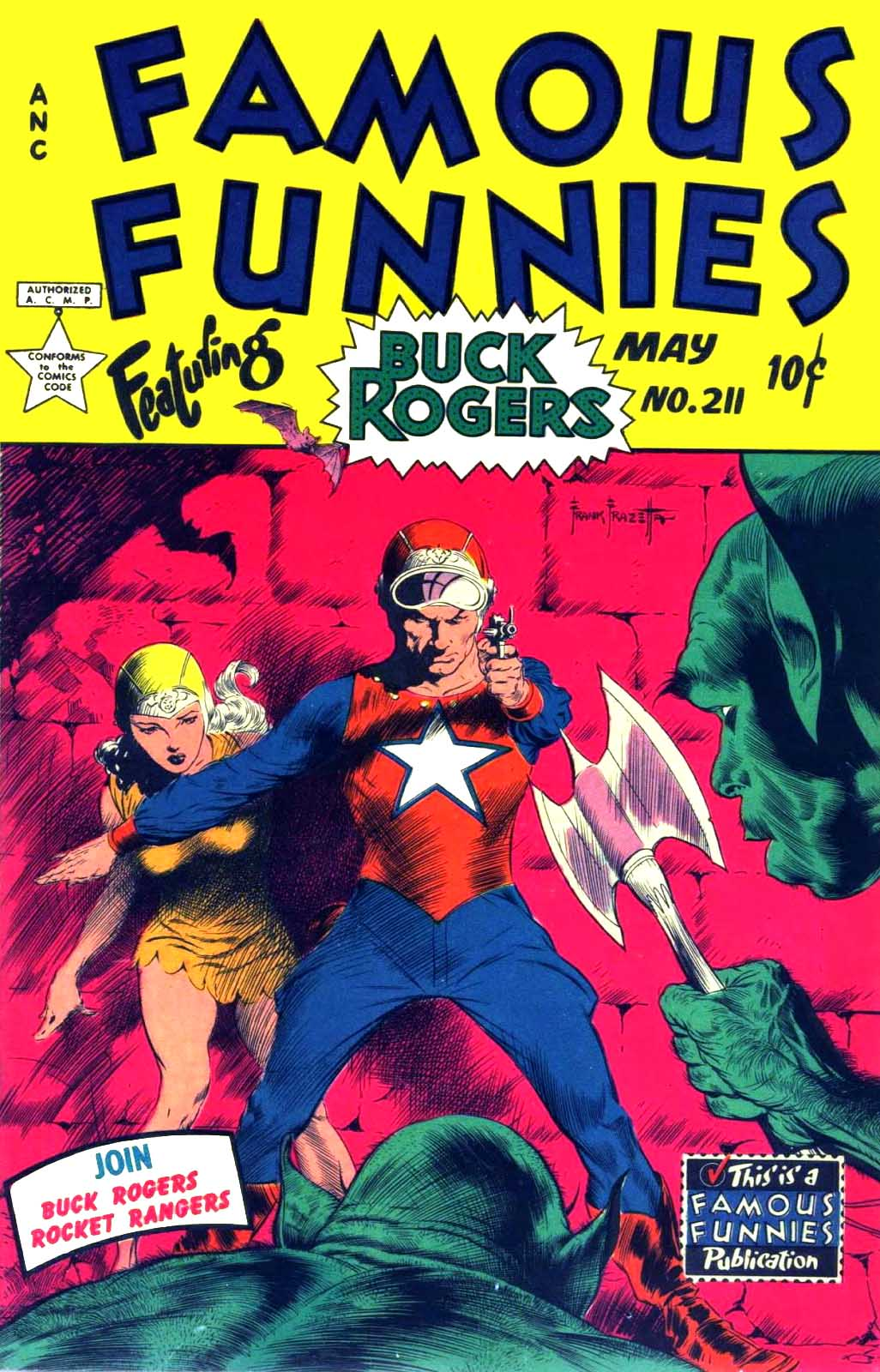 Cover of Famous Funnies number 211 (December 1953), featuring artwork by Frank Frazetta. Publisher: Eastern Color. Oddly enough, the cover feature (Buck Rogers) appears nowhere in the book.